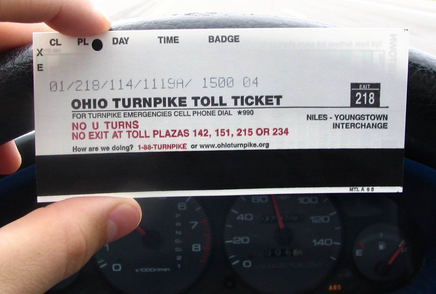 Ohio Turnpike Ticket from April 2006. Clinton N. Godlesky. From personal collection.